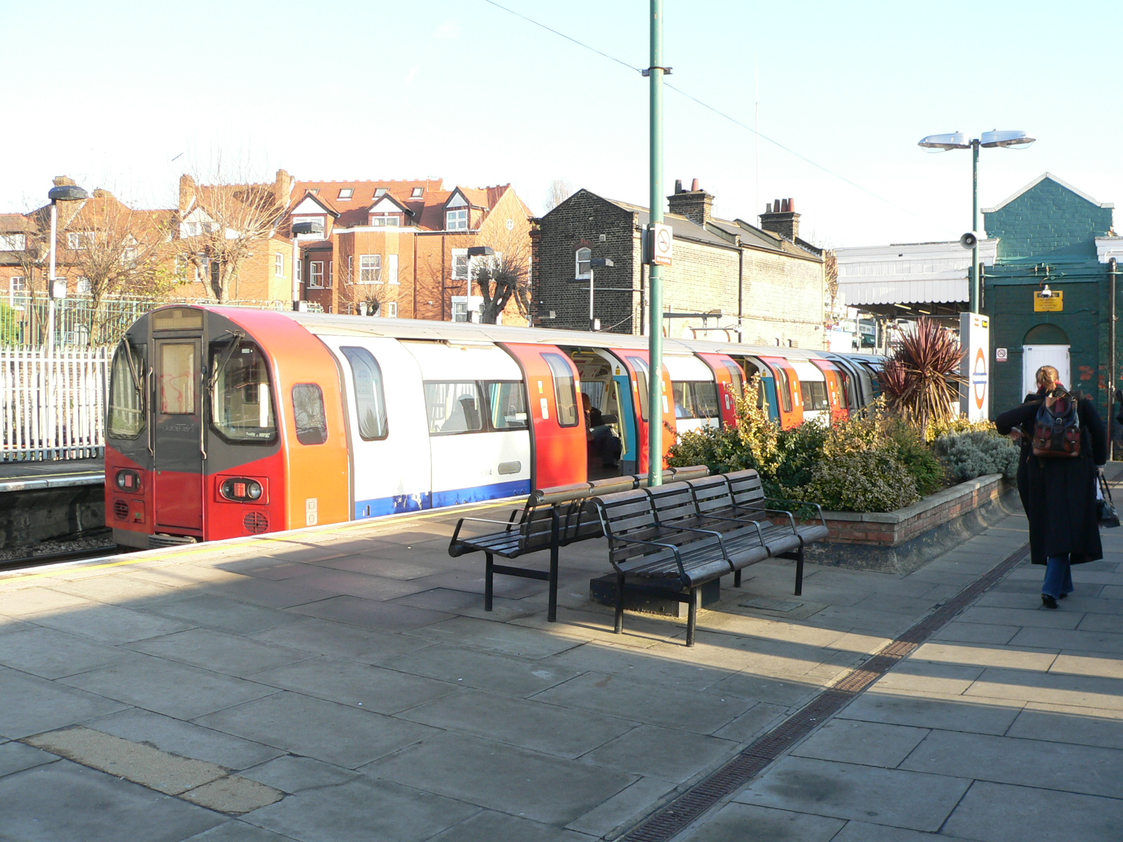 A southbound Jubilee Line 1996 tube stock EMU at Willesden Green tube station, viewed from the doorway of a northbound service.